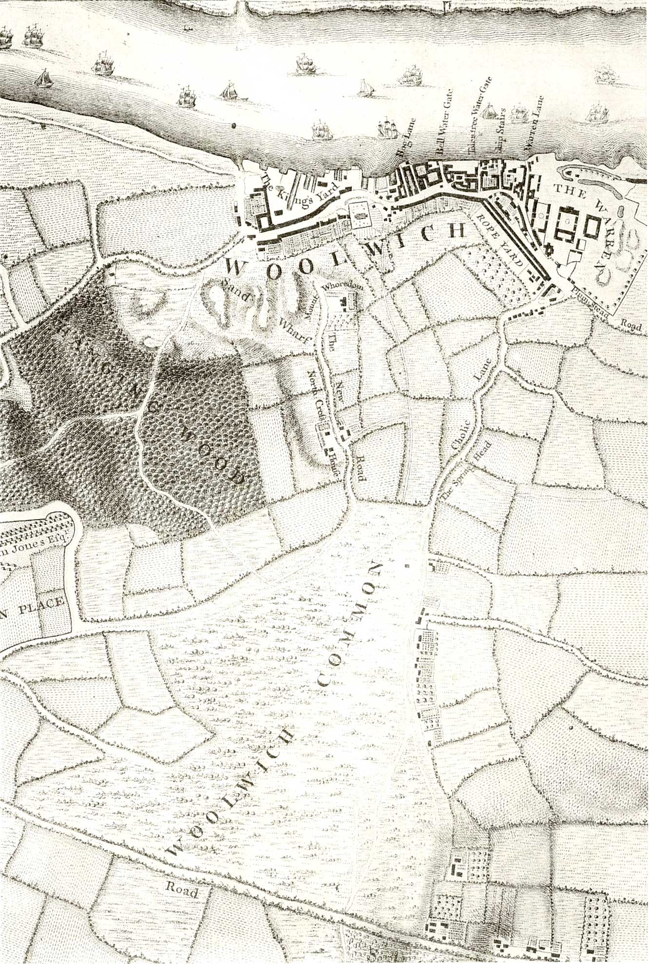 Map of Woolwich in the 18th c. Engraved by Richard Parr, surveyed and published by John Rocque, 1746.